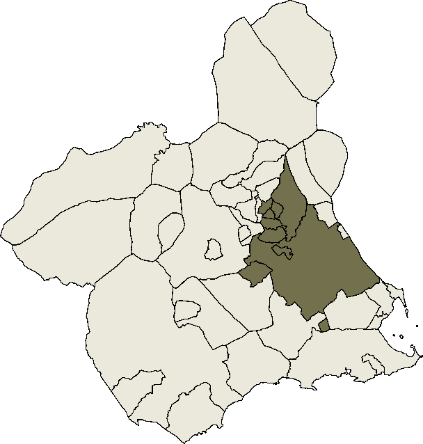 Murcia metropolitan area acording to AUDES5. Municipios que forman las áreas urbanas y metropolitanas (in es).